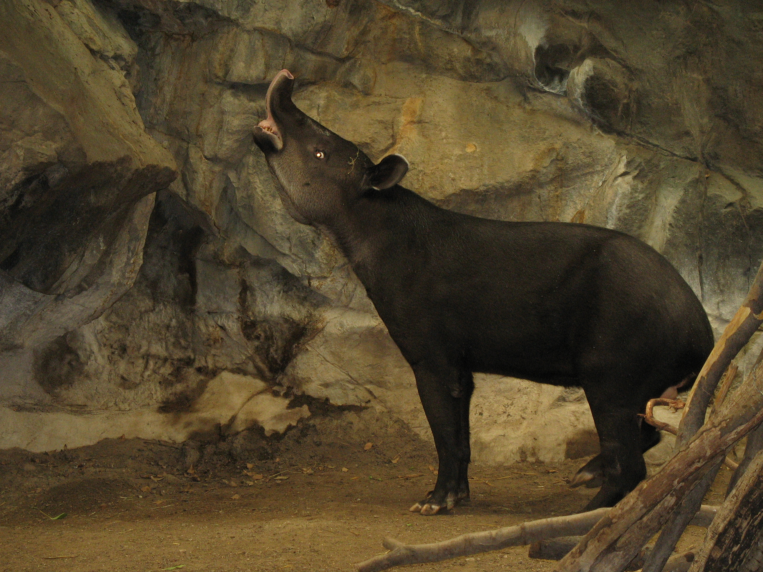 Milton, a 16-year-old male Baird's Tapir at the Franklin Park Zoo in Boston, Massachusetts.